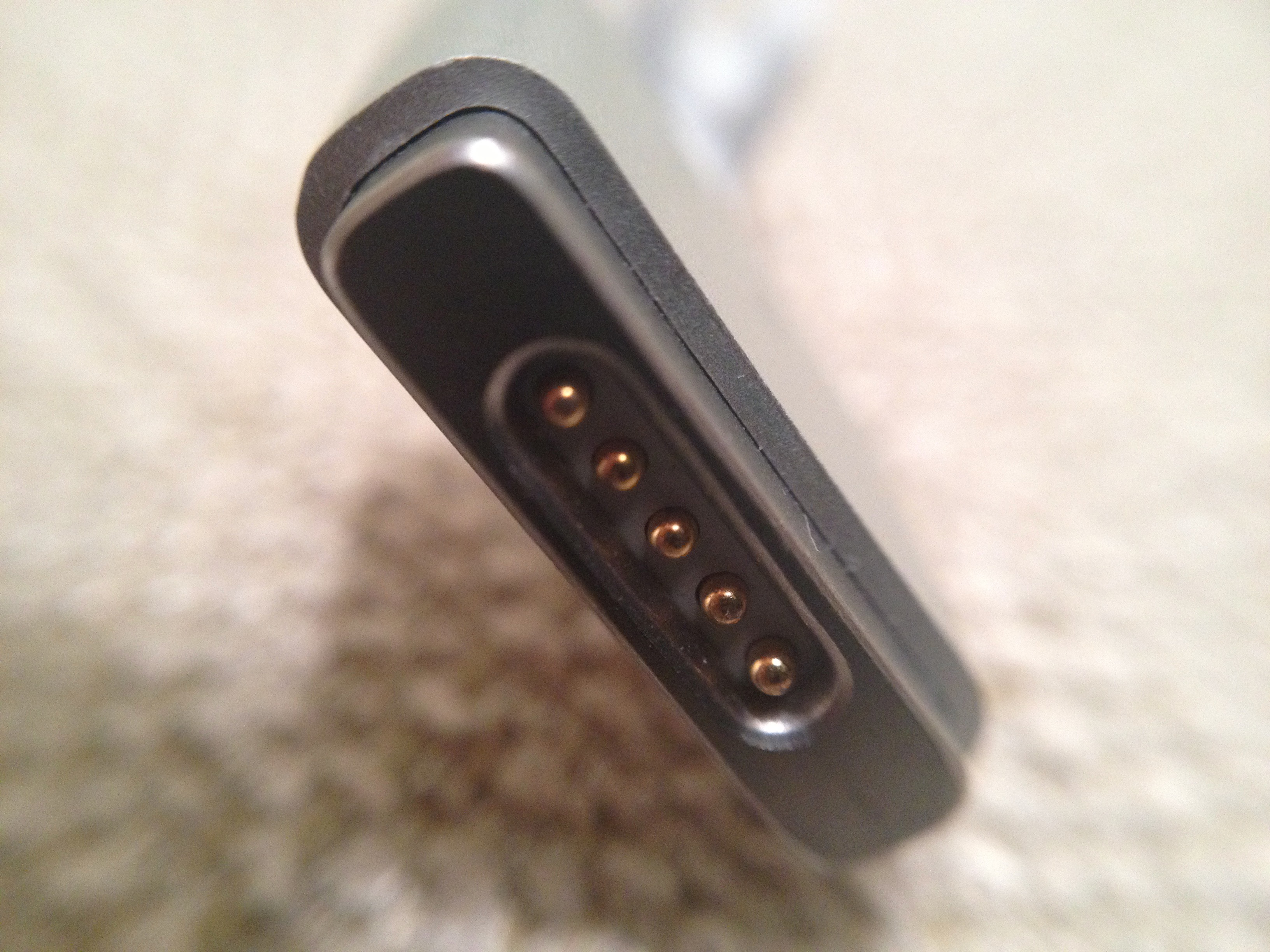 Closeup of the MagSafe 2 connector used by Apple notebook computers from 2012 to 2016.